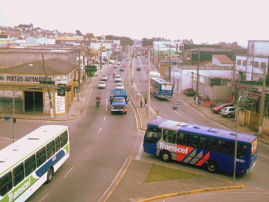 Two buses in Brás Cubas, district Mogi das Cruzes, Brazil. From left to right: (probably #9733) and (#49151). Transcel Transporte Coletivo Especial Ltda. operator.